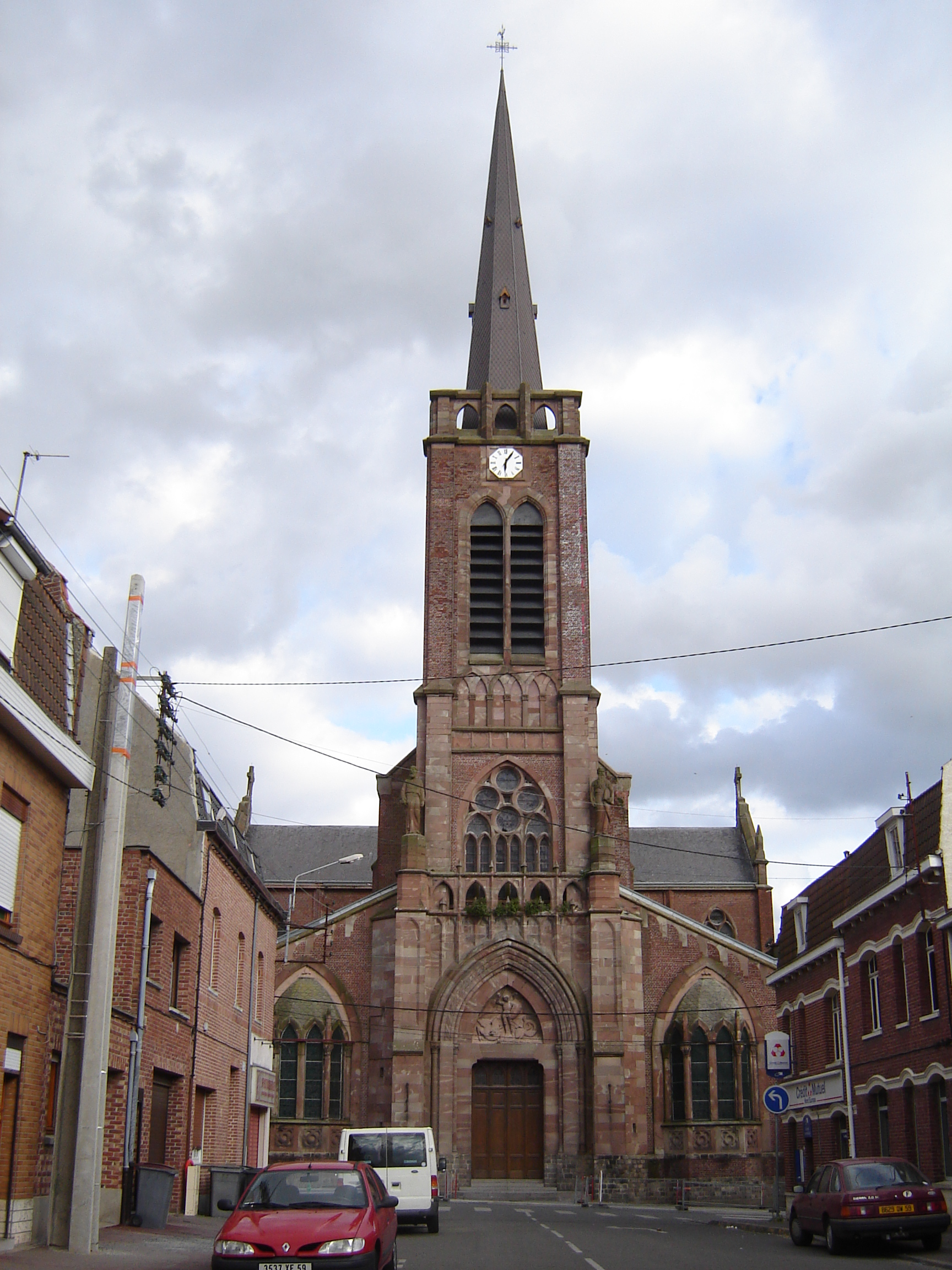 Church of Saint Michael in Quesnoy-sur-Deûle. Quesnoy-sur-Deûle, Nord, Nord-Pas-de-Calais, France